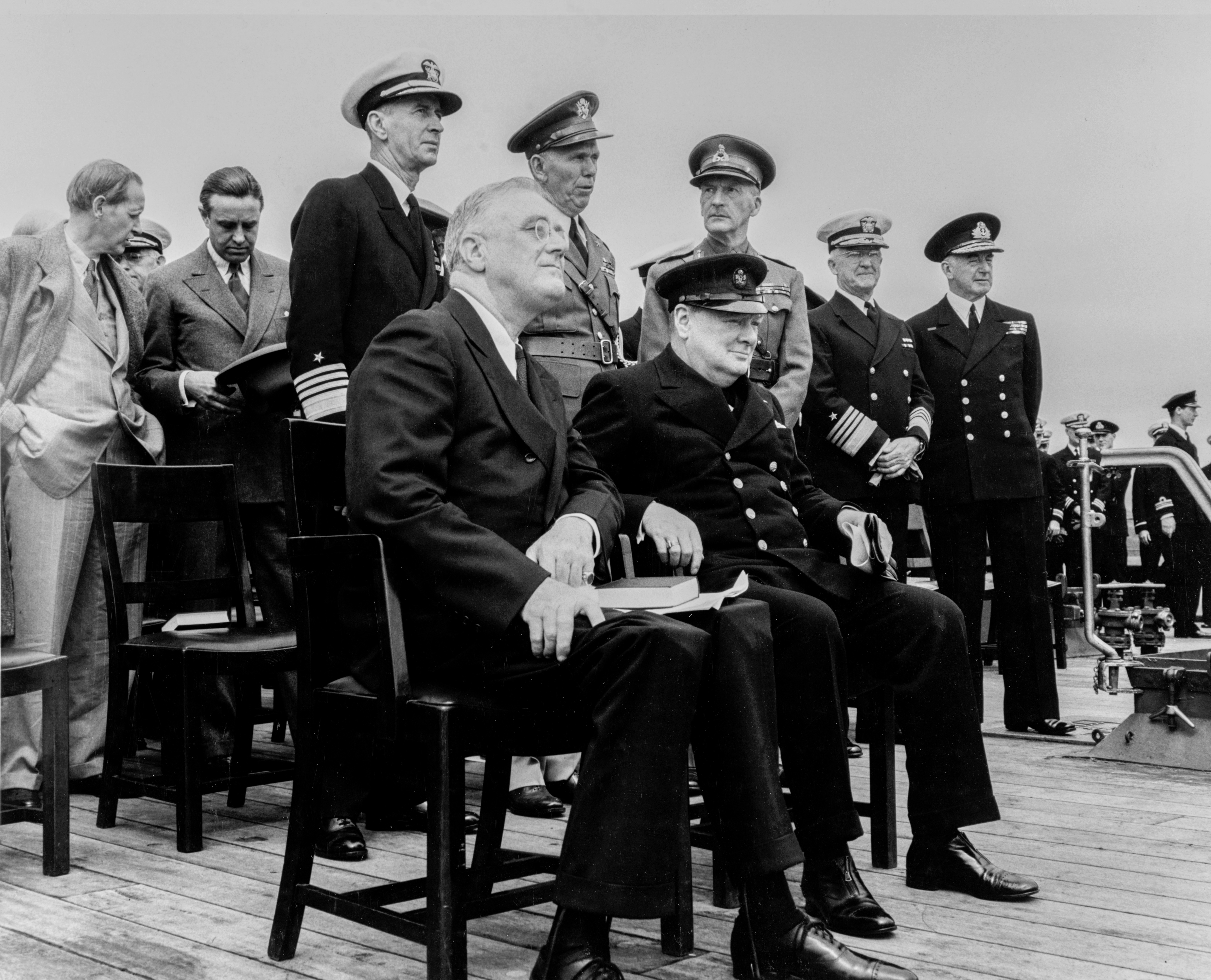 Conference leaders during Church services on the after deck of HMS Prince of Wales, in Placentia Bay, Newfoundland, during the Atlantic Charter Conference. President Franklin D. Roosevelt (left) and Prime Minister Winston Churchill are seated in the foreground. Standing directly behind them are Admiral Ernest J. King, USN; General George C. Marshall, U.S. Army; General Sir John Dill, British Army; Admiral Harold R. Stark, USN; and Admiral Sir Dudley Pound, RN. At far left is Harry Hopkins, talking with W. Averell Harriman.